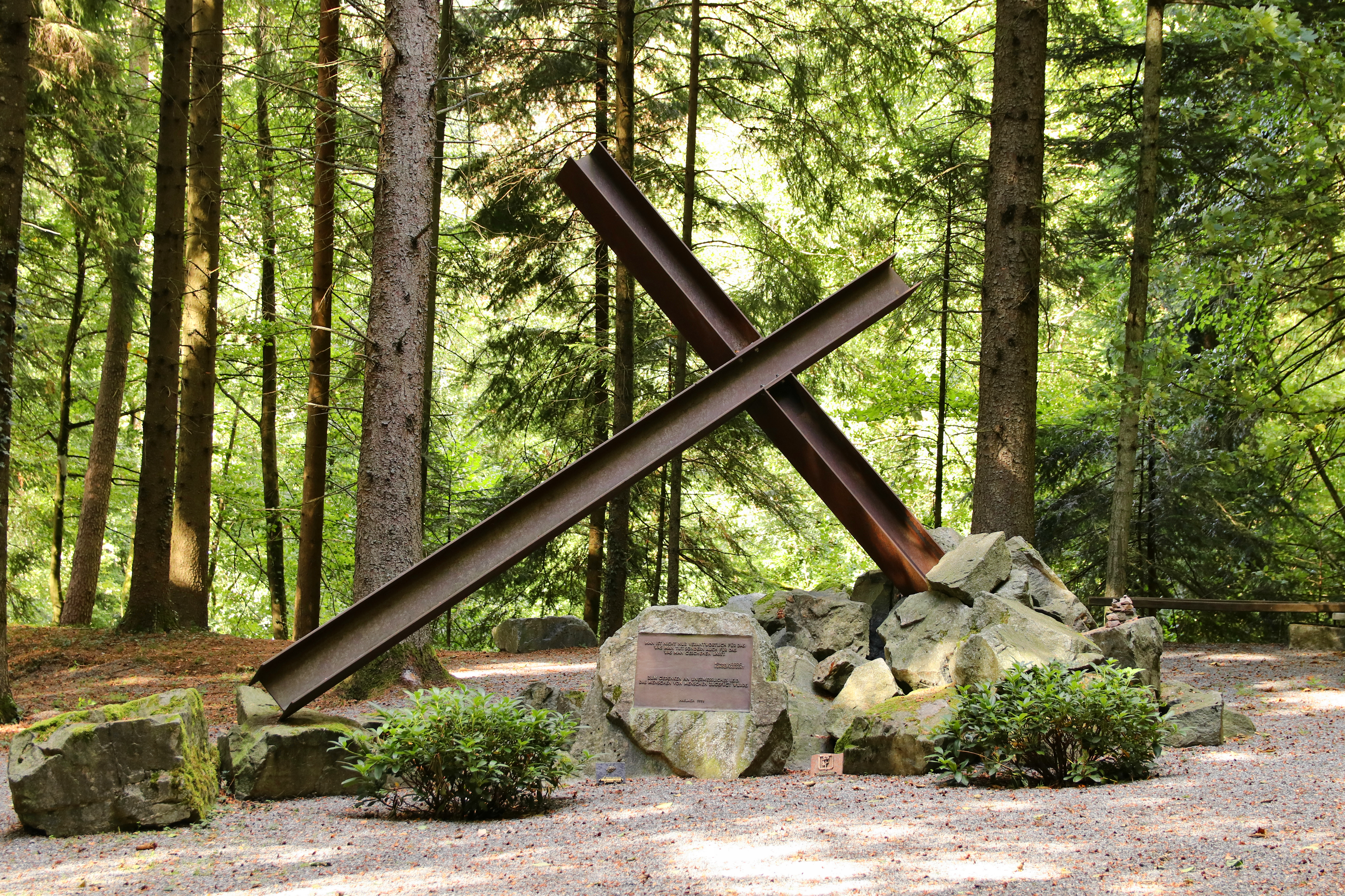 Memorial at the Vulkan concentration camp memorial near Haslach in the Kinzigtal valley.